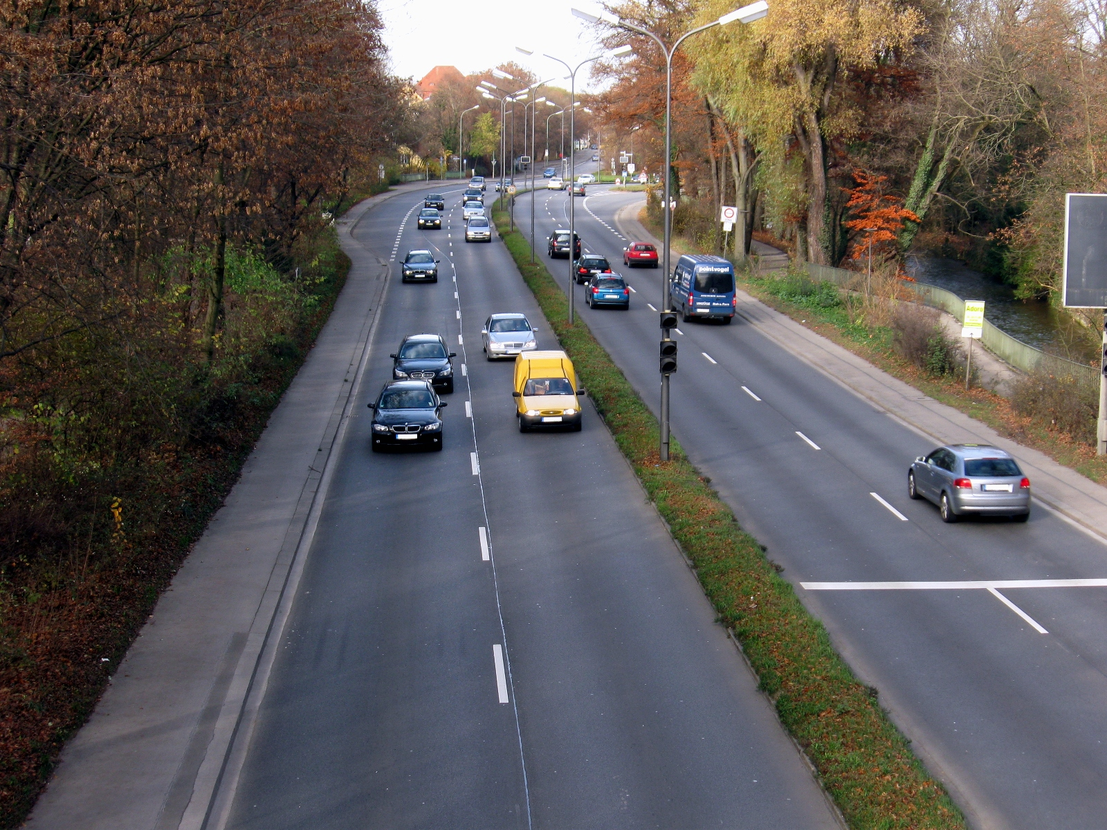 Isarring in the English Garden in Munich (Bavarian, Germany) view westwards